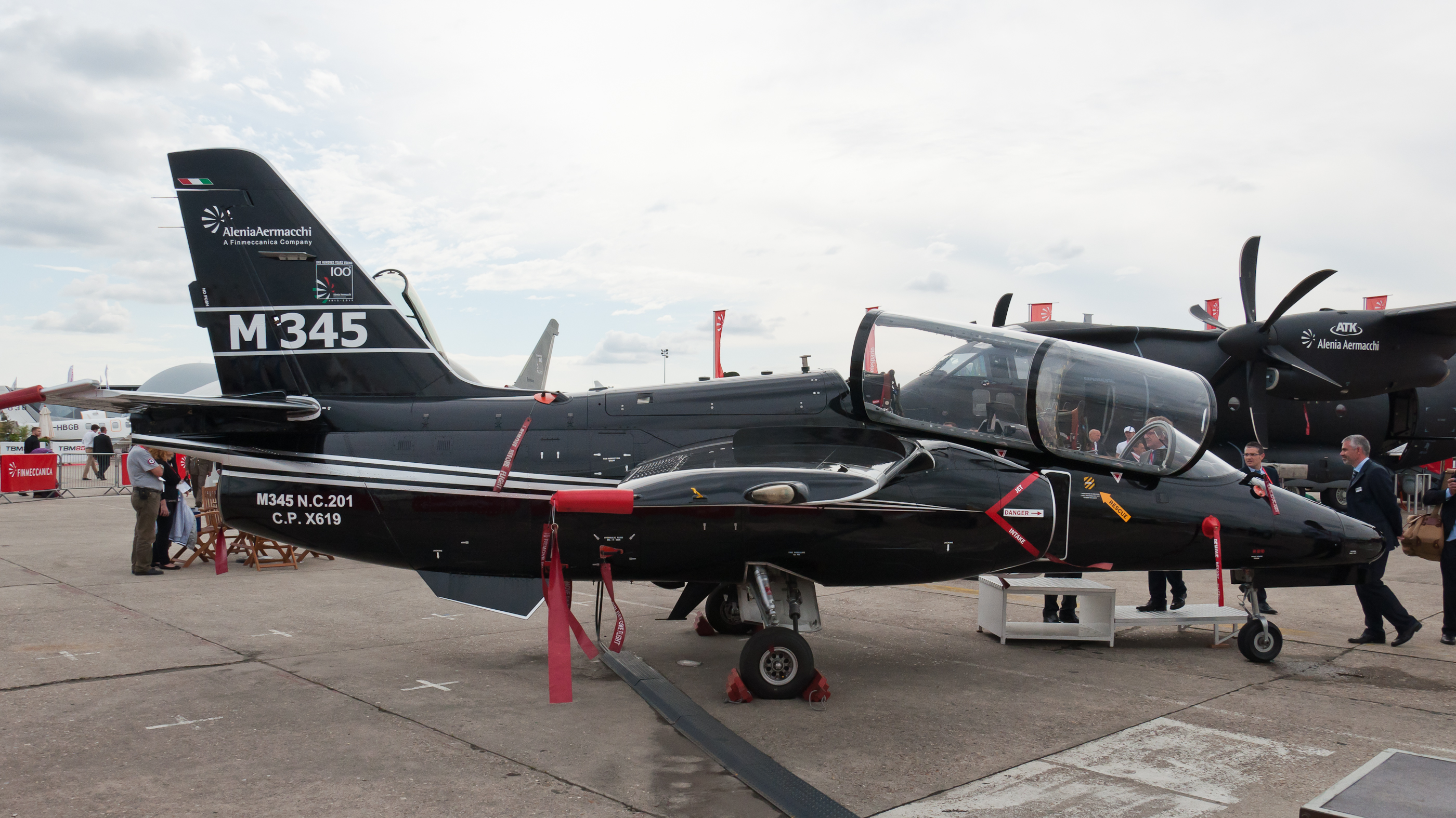 Alenia Aermacchi M-345 (reg. CPX619, c/n 201) at Paris Air Show 2013.